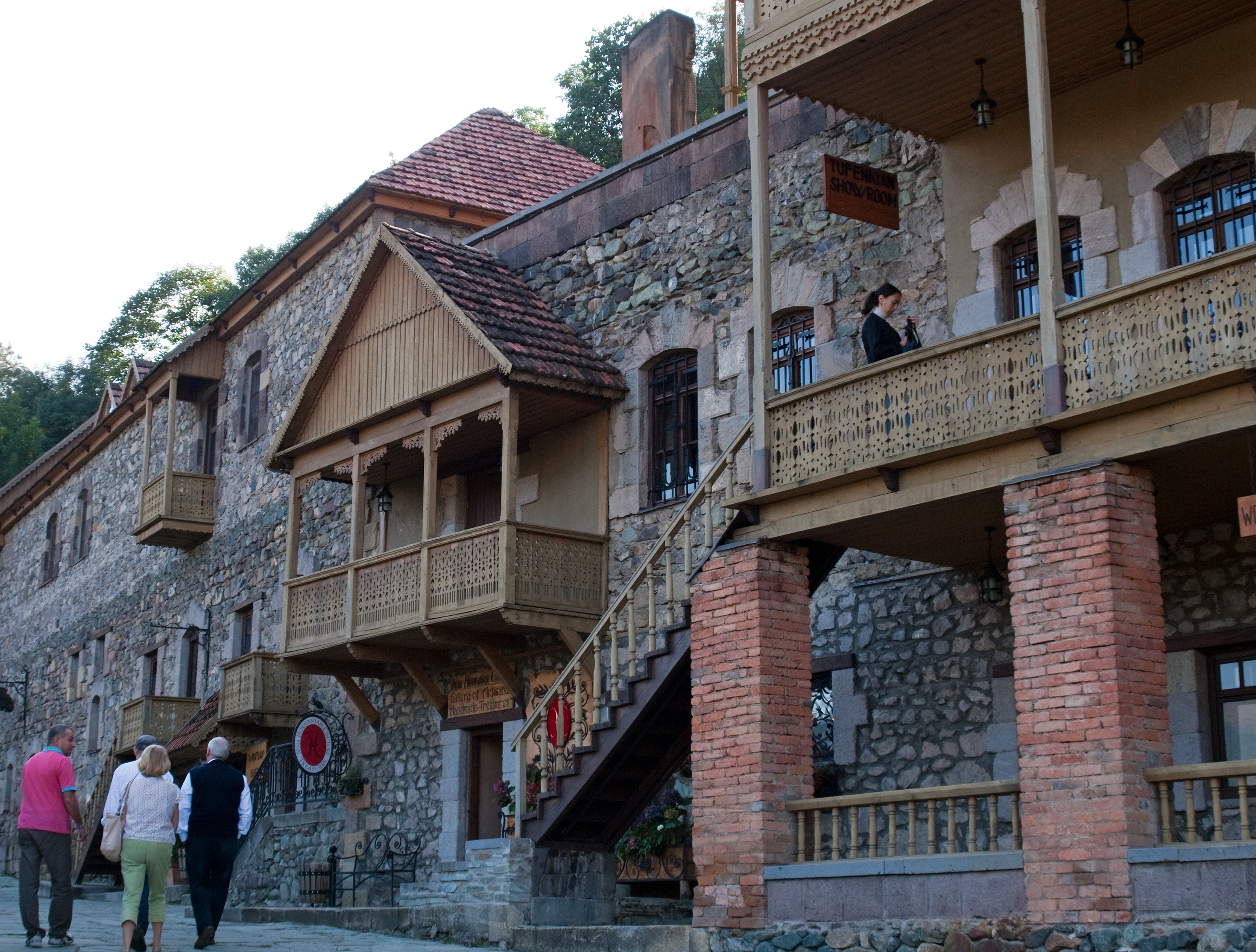 Sharambeyan street at Dilijan